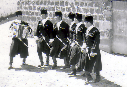 Circassians